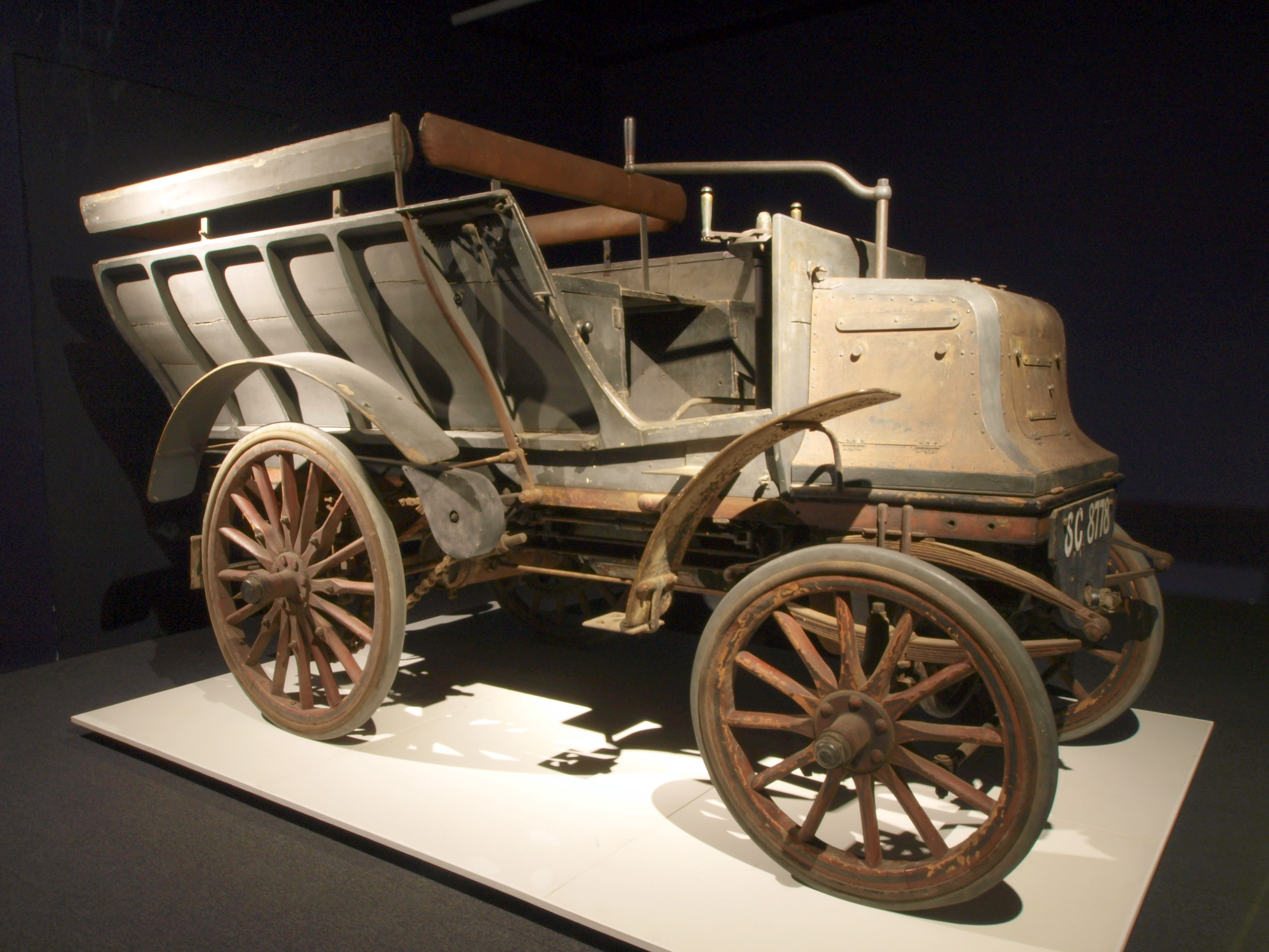 Photographed at the Louwman museum / Louwman Collection, The Netherlands.